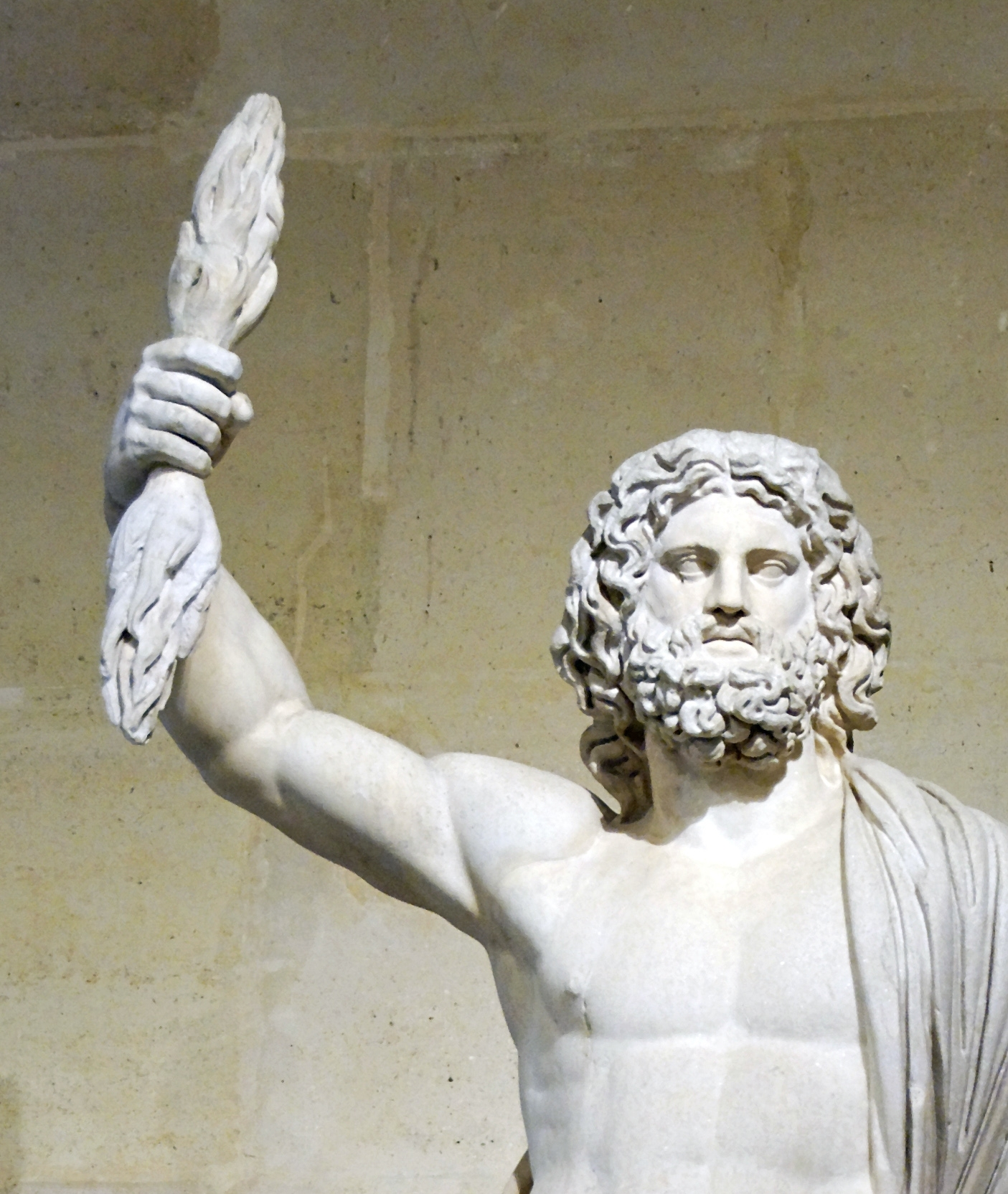 Statue of a male deity, brought to Louis XIV and restored as a Zeus ca. 1686 by Pierre Granier, who added the arm raising the thunderbolt.